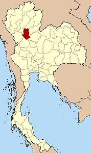 Map of Thailand highlighting Sukhothai province